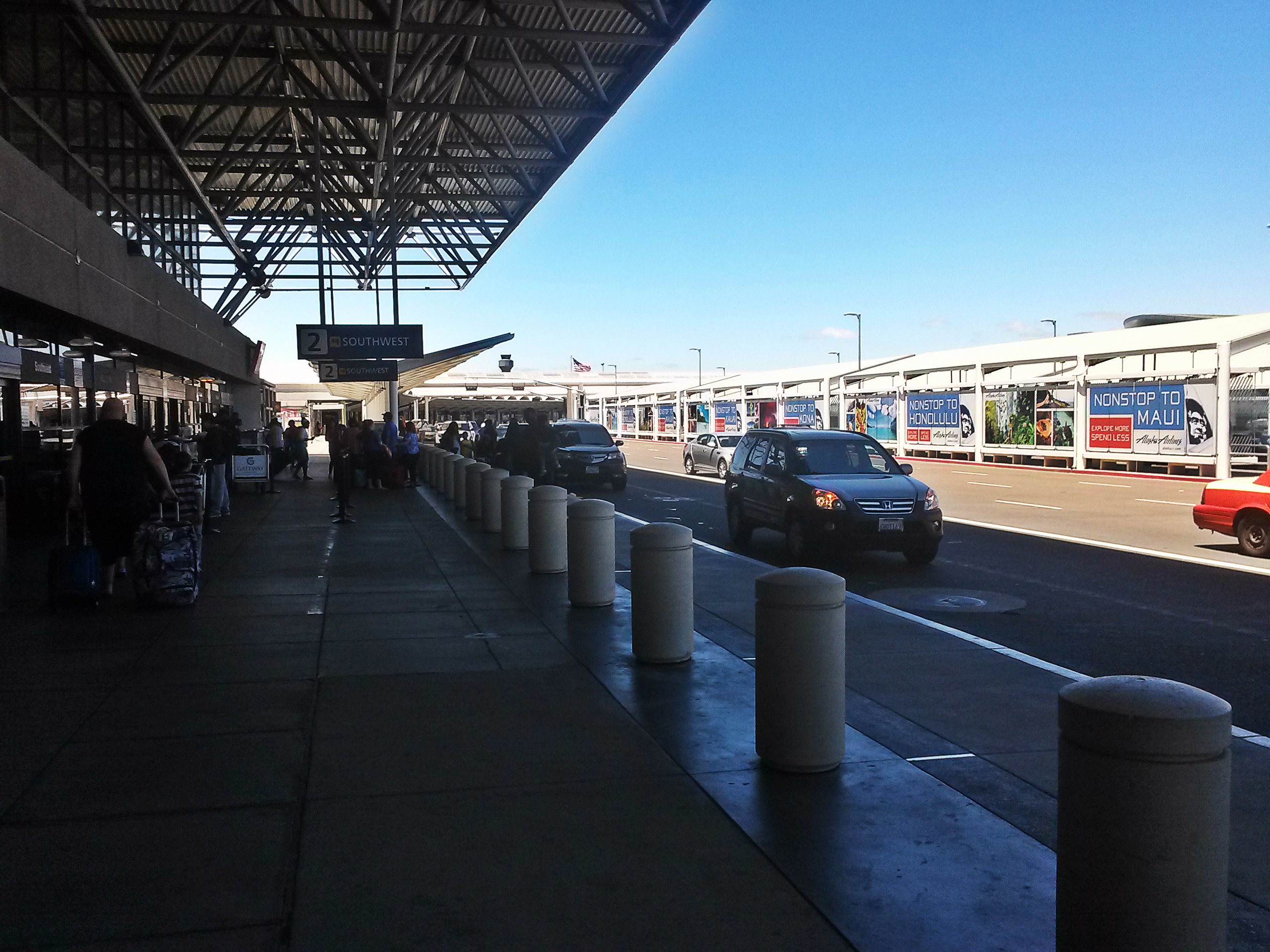 Oakland International Airport Terminal 2 Curbside